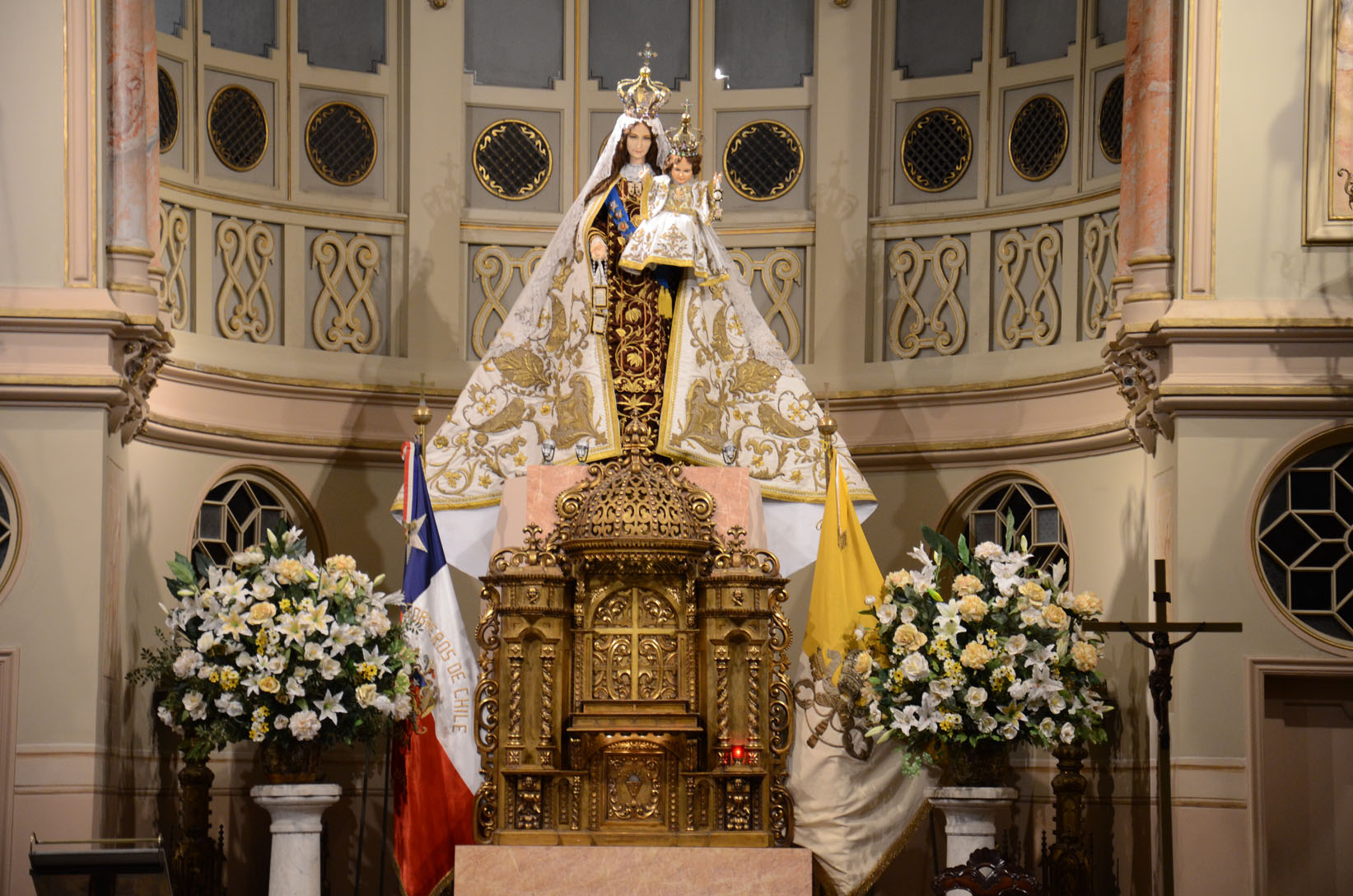 This is a photo of a national monument in Chile: 210